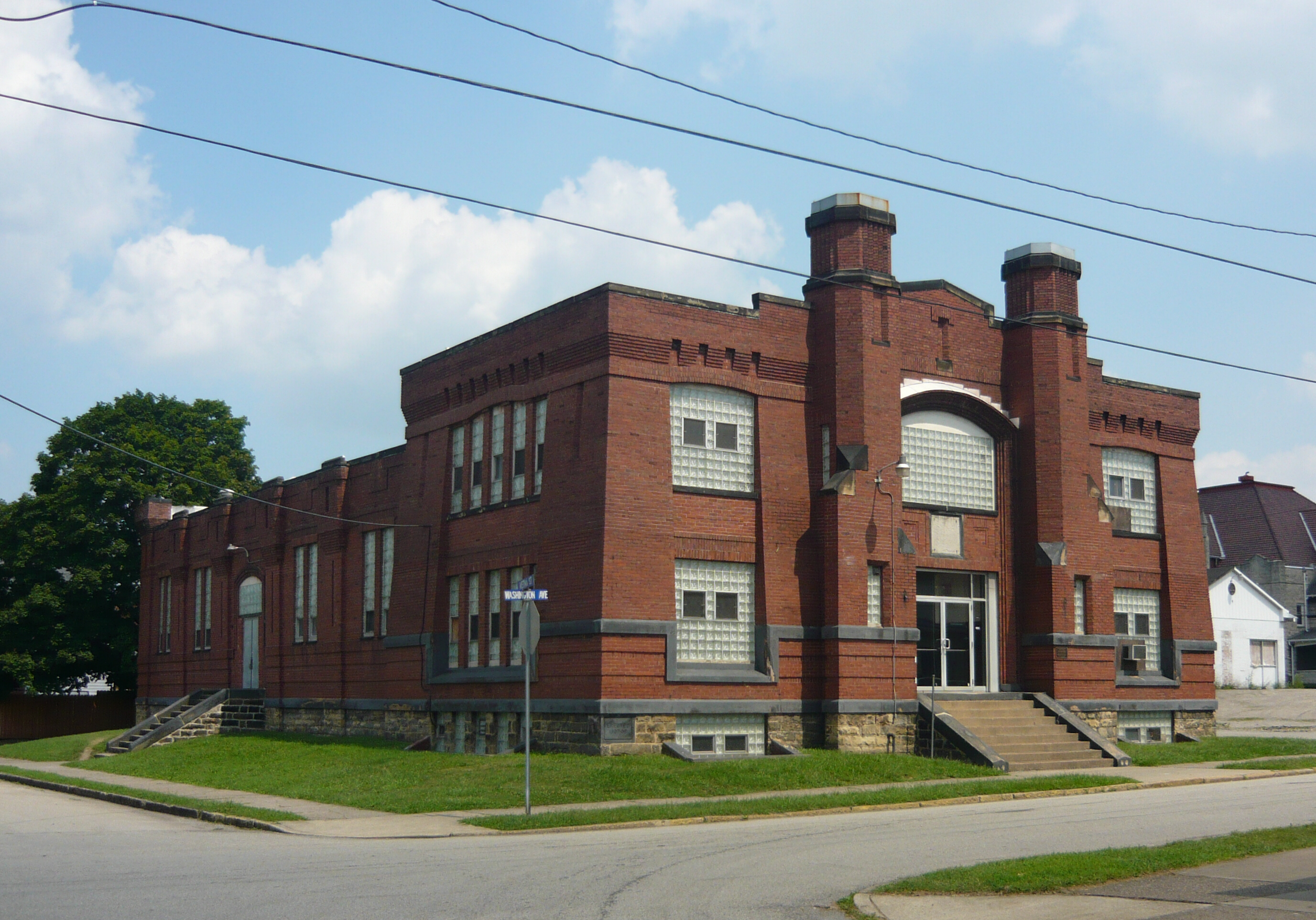 Connellsville Armory — 108 West Washington Street (corner of Aetna Street), Connellsville, Pennsylvania. *Built 1907 in a Tudor Revival and Late Gothic Revival style. Architect: W.G. Wilkins Company. Builder: Mark H. Hurst.